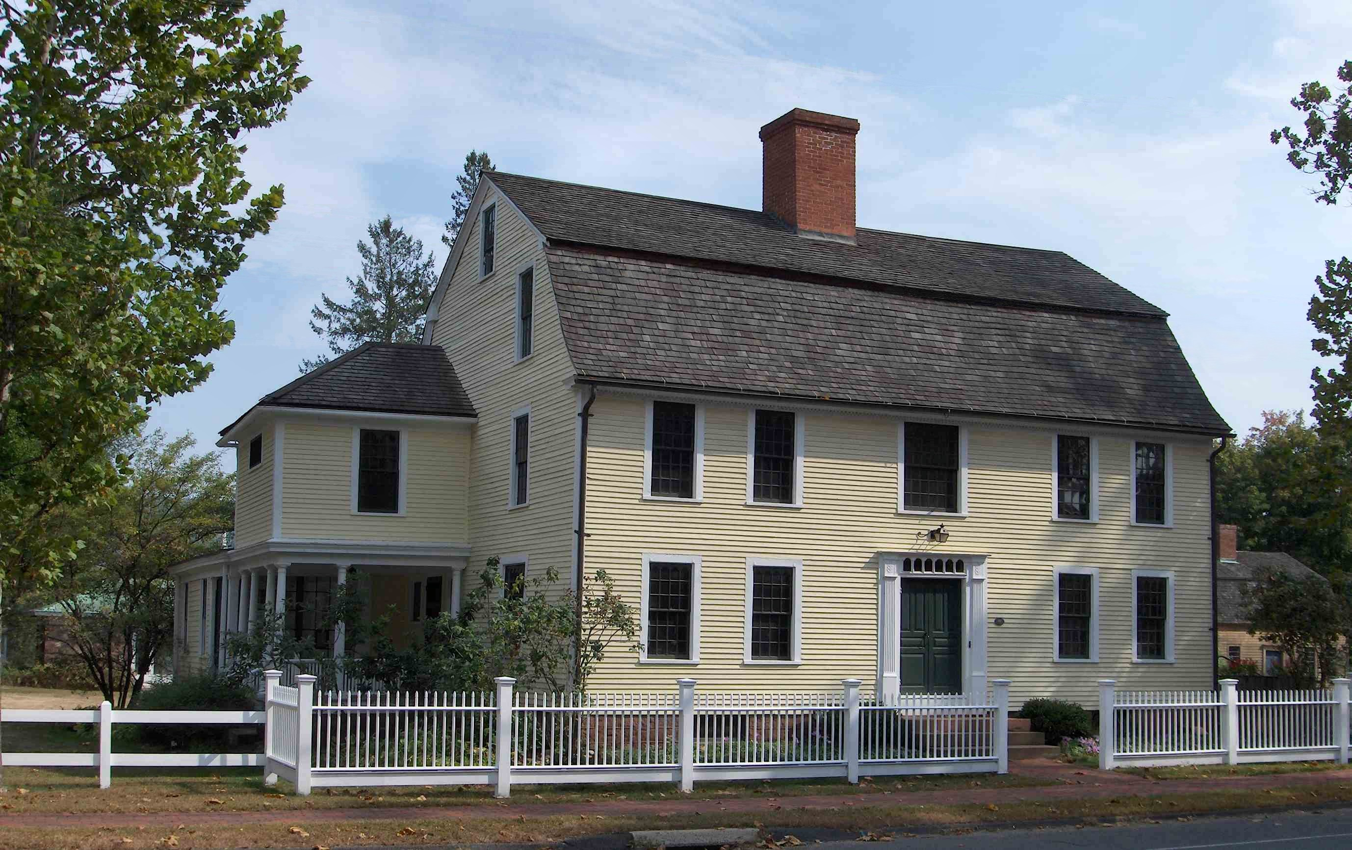 This is a National Register of Historic Places house, original built by David Phelps in 1711, then expanded by (his son) Elisha Phelps in 1771. It is the centerpiece of the the Simsbury History Society site, a collection of several buildings and gardens.